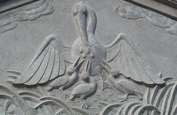 A relief depicting a pelican in her piety, Cimetière Notre-Dame-des-Neiges, Montreal.